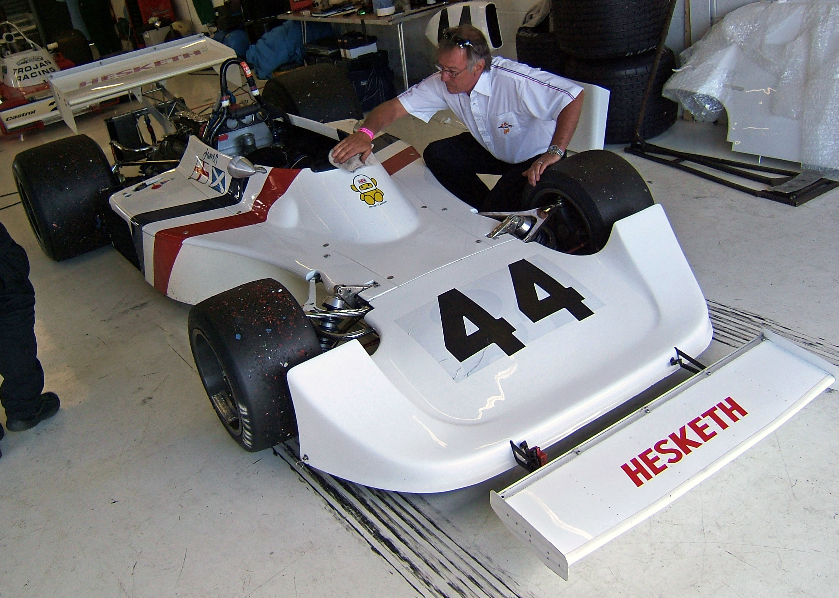 A Hesketh 308B in the pit garages at Silverstone, July 2007.